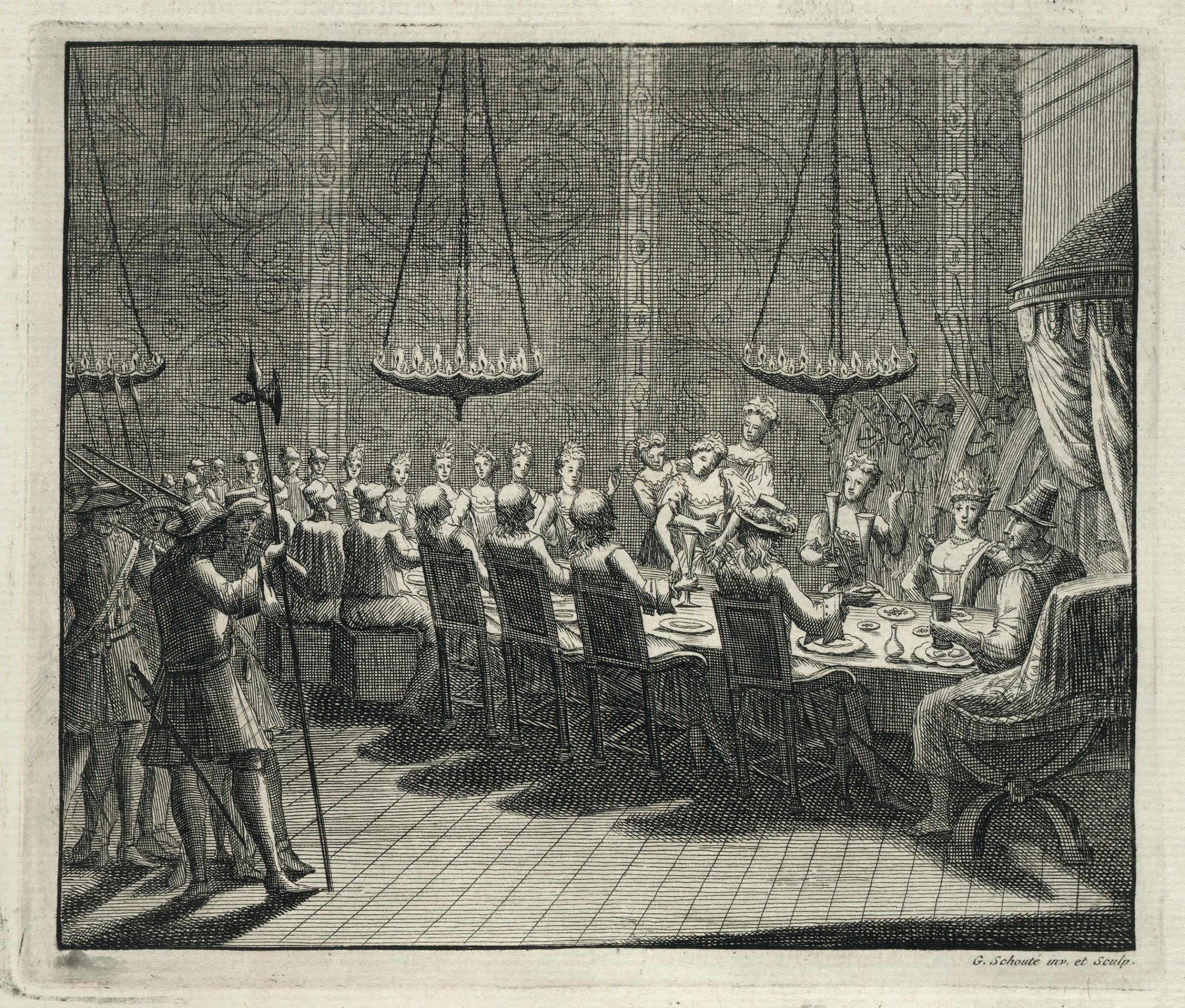 Dutch at table with the king of Gammelamme in 1680. The illustration is taken from the work 'Oud en Nieuw Oost-Indiën' by François Valentyn. The king had plotted to have all the Dutch killed, but the Dutch sensed foul play and managed to prevent this happening. The king in question was Kaitsjili Sibori or Kaitsjili Amsterdam.